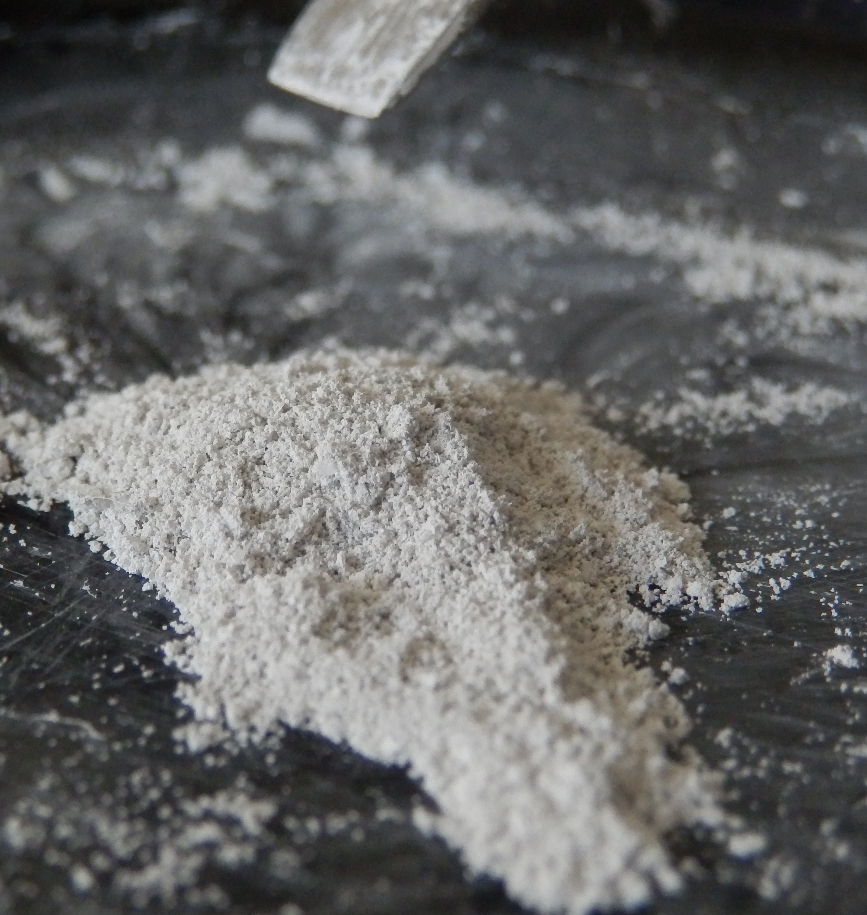 Copper(I) thiocyanate is synthesized from copper (II) sulfate, by merging it with sodium sulfite solution, and then potassium rodanide. It has the appearance of an amorphous fatty gray powder.